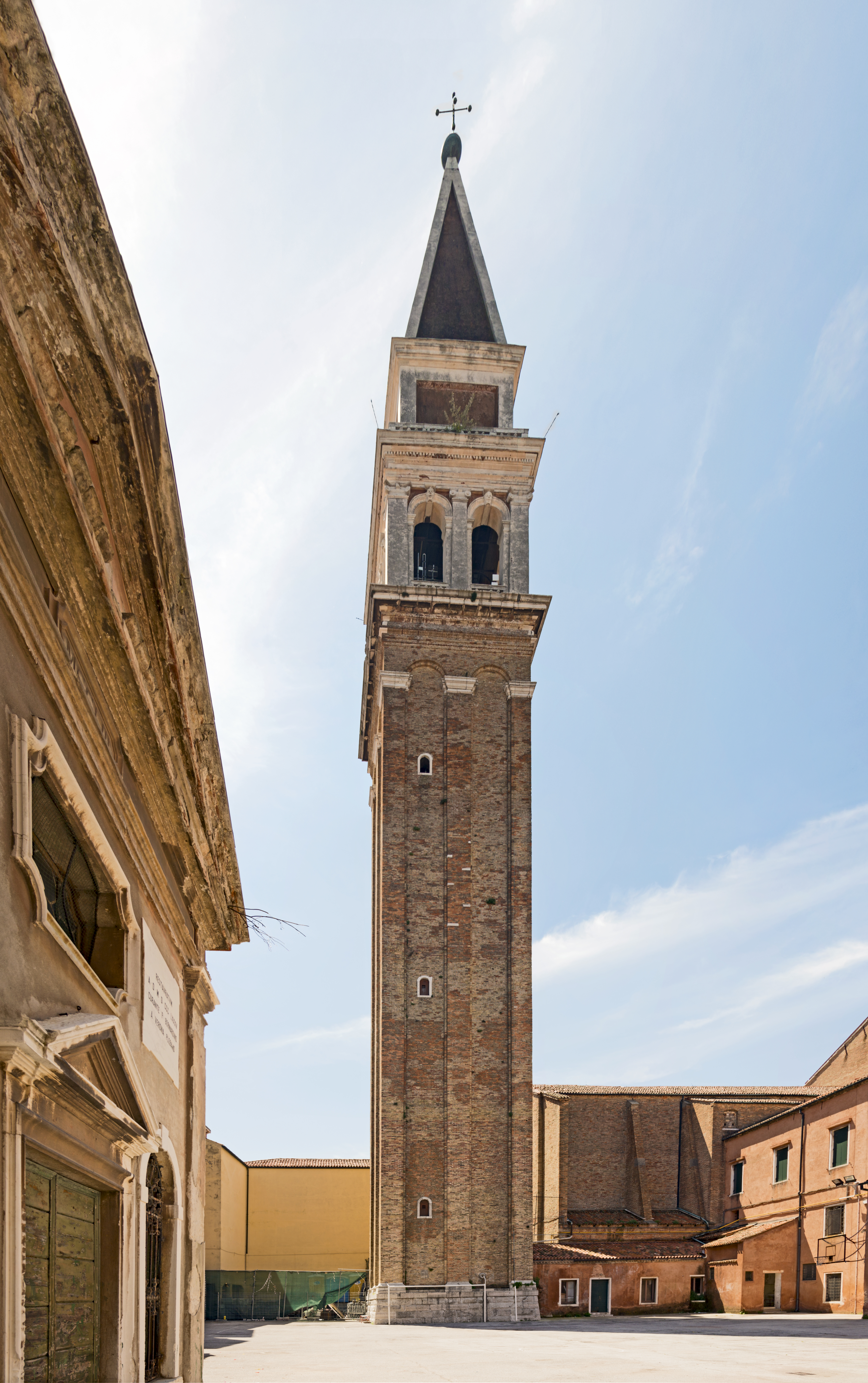 Campanille of Church San Francesco della Vigna (Venice).